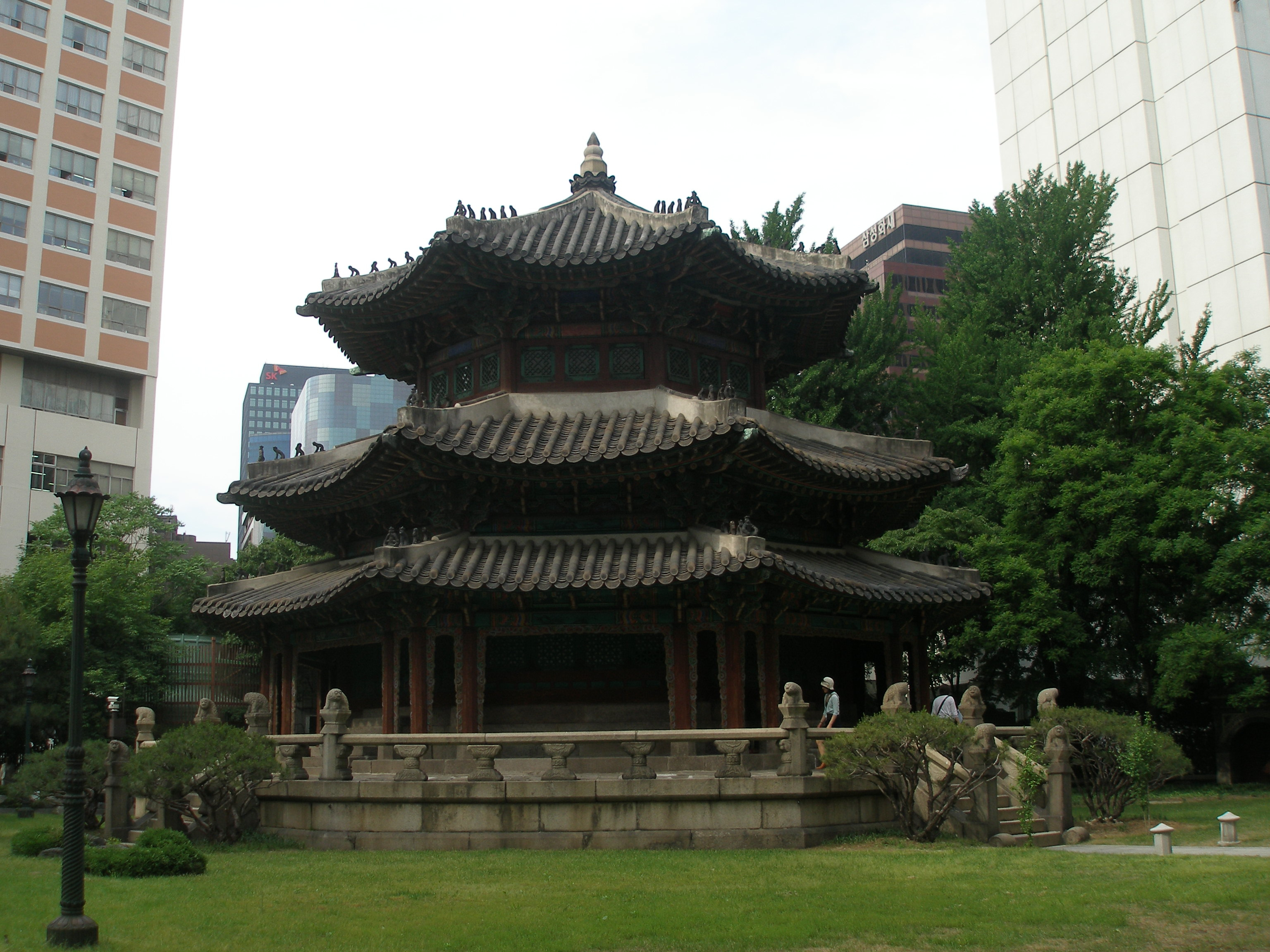 Outcommings of Wikipedia takes Jeongdong 위키백과:위키백과, 정동을 찍다에서 찍은 사진 Alter for Heaven of Korean Empire